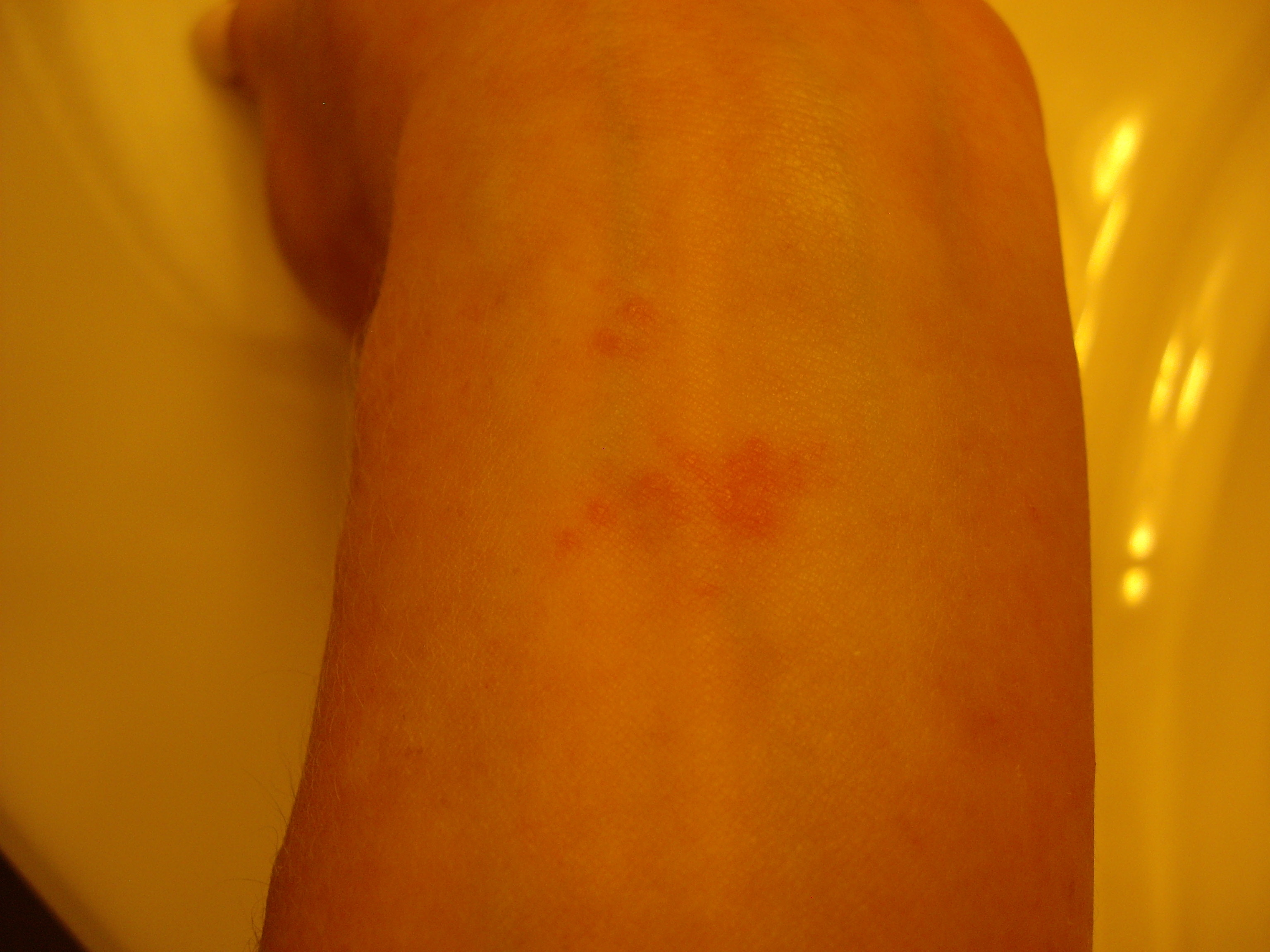 Dermatitis after coming in contact with Opuntia microdasys monstrose glochids Dermatite après avoir été en contact avec glochides Opuntia microdasys Monstrose